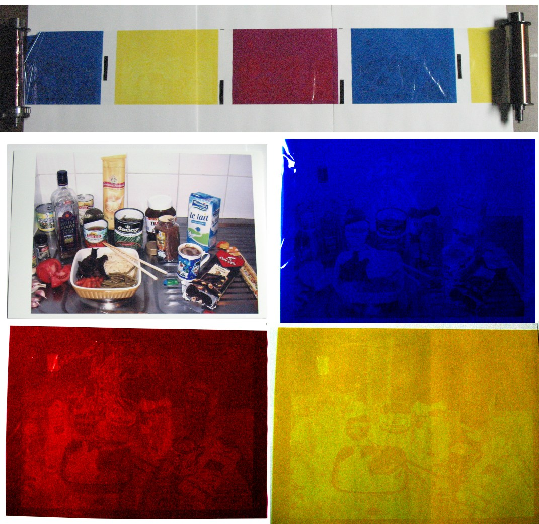 This is an example of how dye sublimation printers can pose a security and privacy threat. The used dye sublimation panels contain a residual image of the printed document, and are simply spooled up on the waste roll. Someone digging through trash finding a used cartridge would be able to unroll it and see everything that has been printed. thumb This is a work based on the following GNU Free Documentation License, Version 1.2 Wikimedia image: This derivative work was created by Dale Mahalko. The image was printed with an old Sony UP-D2500 photo printer. The used dye panels were then unrolled and photographed on white typing paper with a Canon PowerShot A630, and the brightness and contrast of the panels adjusted with Corel PhotoPaint to make the residual image in each panel more obvious.